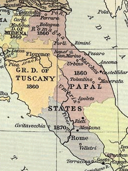 Map of the Papal States until 1870.